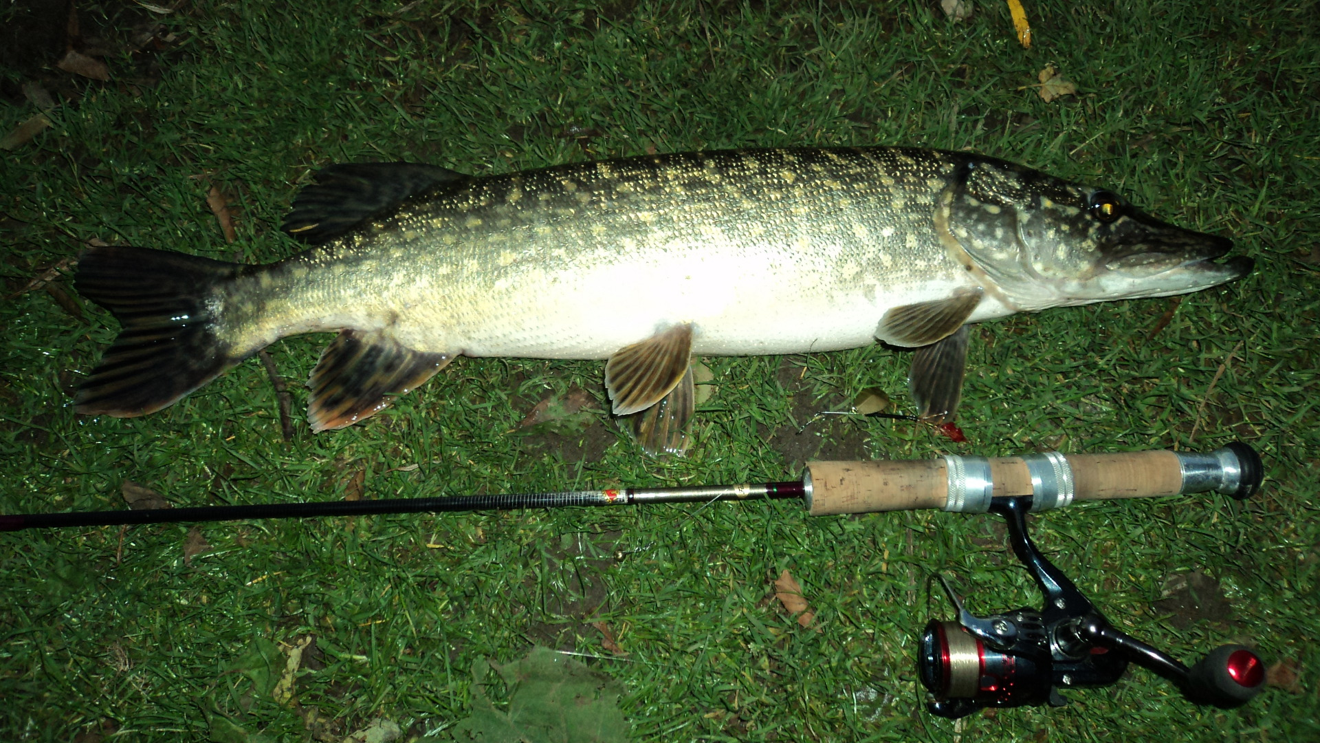 Pike (67cm length) caught on a ultra-light spinning rod (5 grams casting weight) with 16/00 nylon, using a 25mm spinner in Belgium